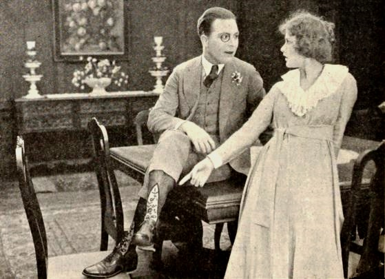 Still from the American comedy romance film A Pair of Silk Stockings (1918) with Harrison Ford and Constance Talmadge, on page 30 of the July 20, 1918 Exhibitors Herald.